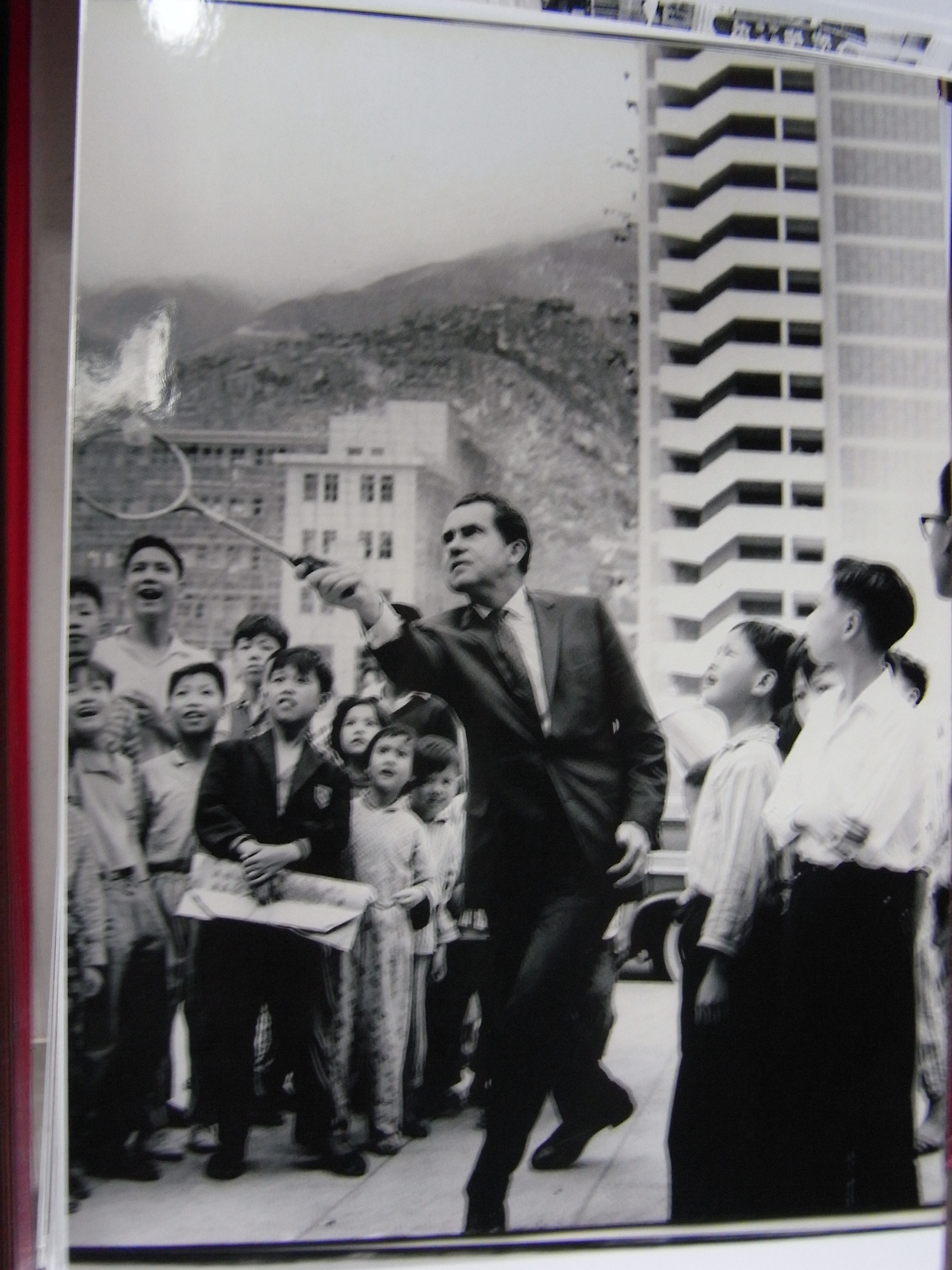 上環摩羅上街, Old photo on sale in Cat Street, Hong Kong. 二手市場 黑白照片